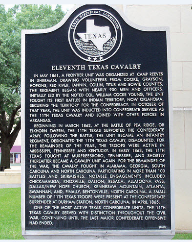 Photo by Dean Reeves, 2015